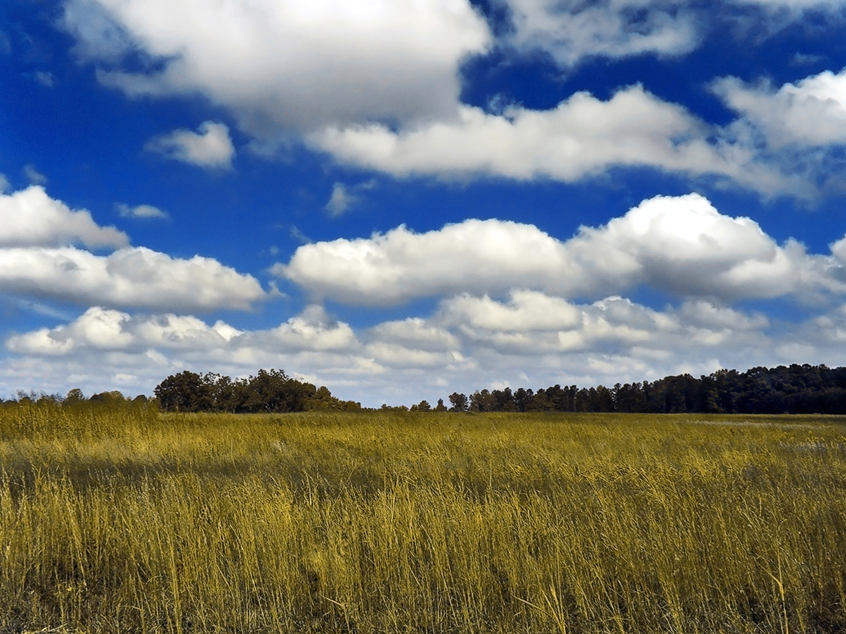 Color-enhanced photo of cumulus clouds above a golden meadow.